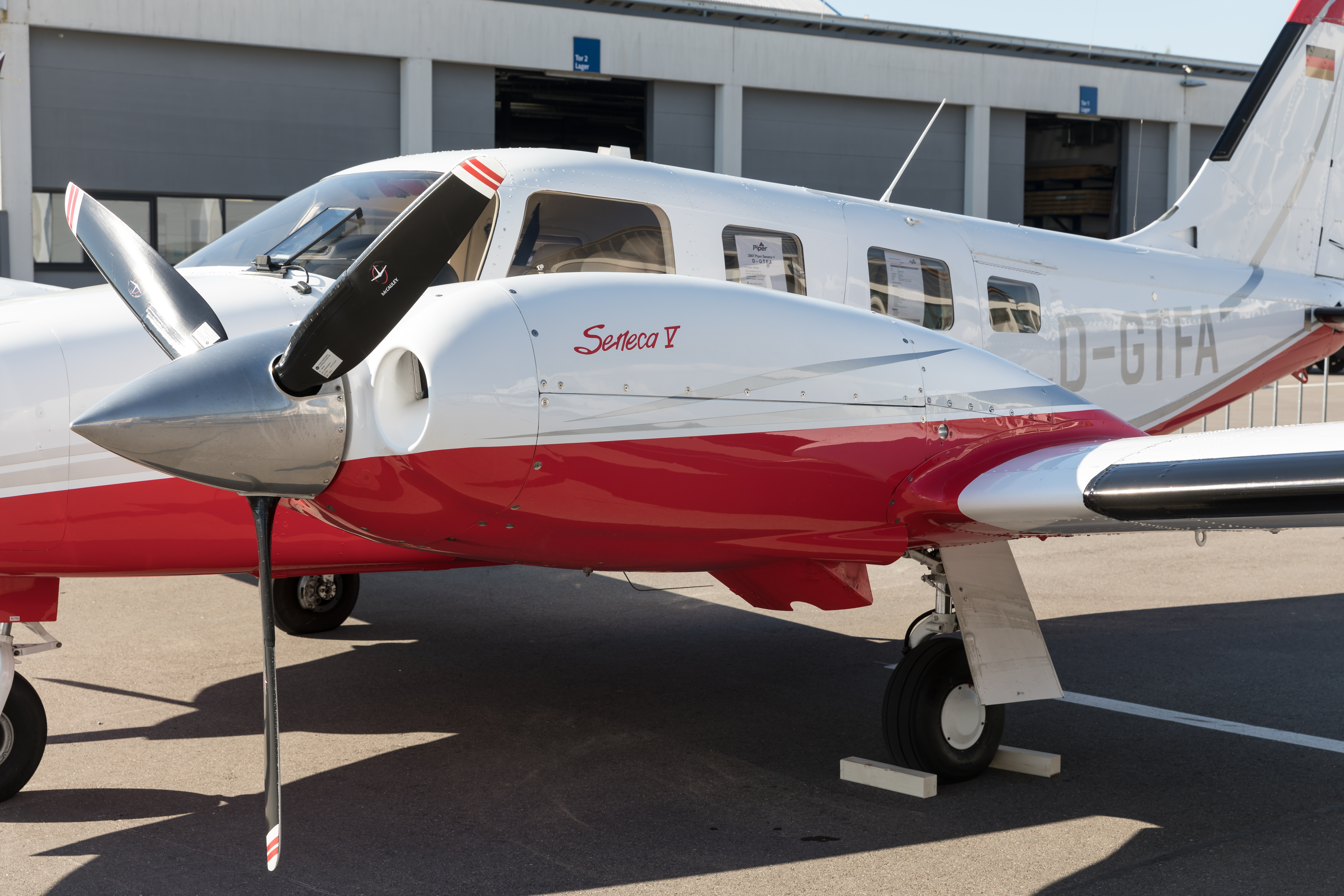 Left Continental engine and McCauley propeller of a Piper Seneca V, AERO Friedrichshafen 2018